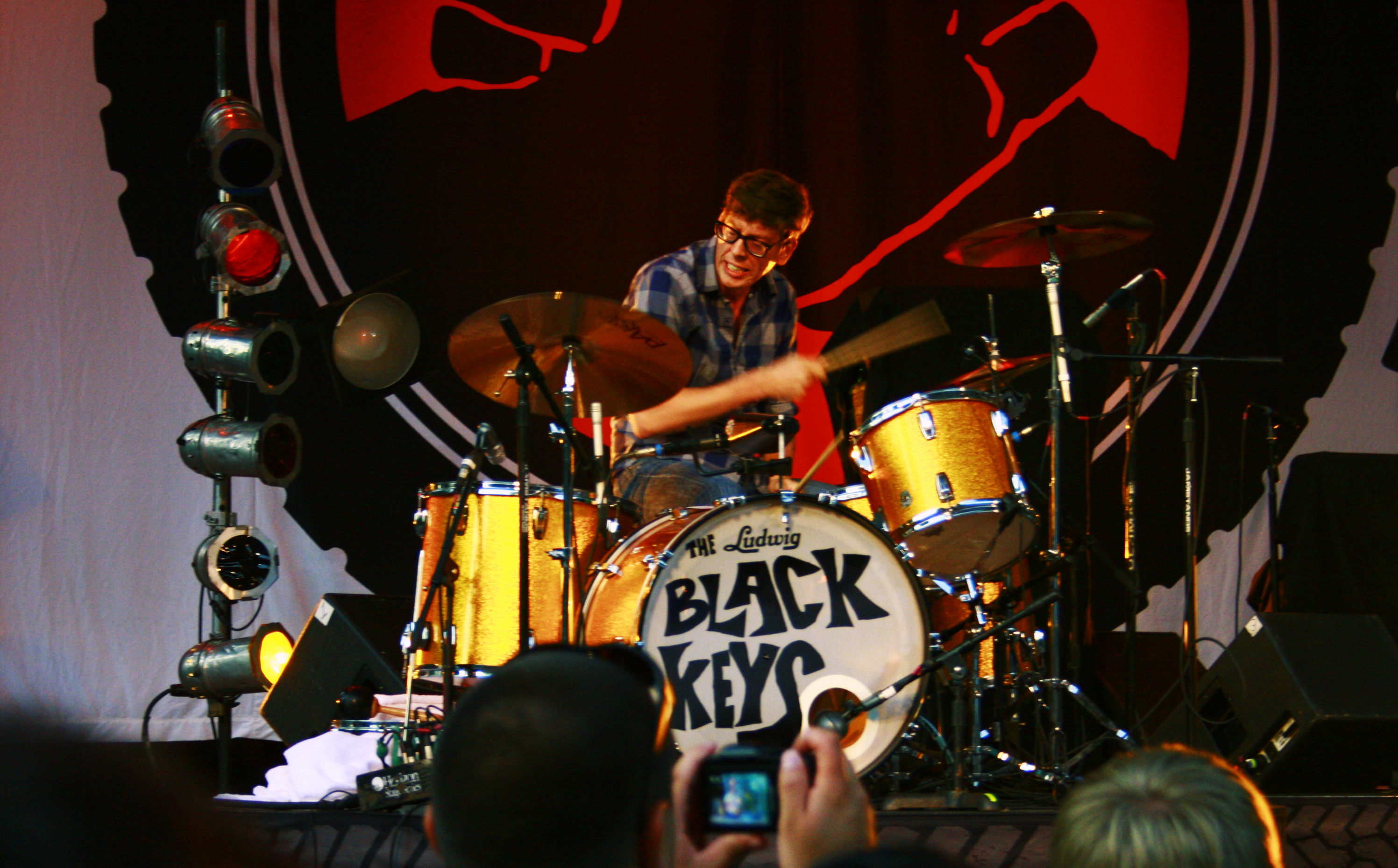 Patrick Carney of The Black Keys during a performance at Central Park Summerstage on 7/27/10